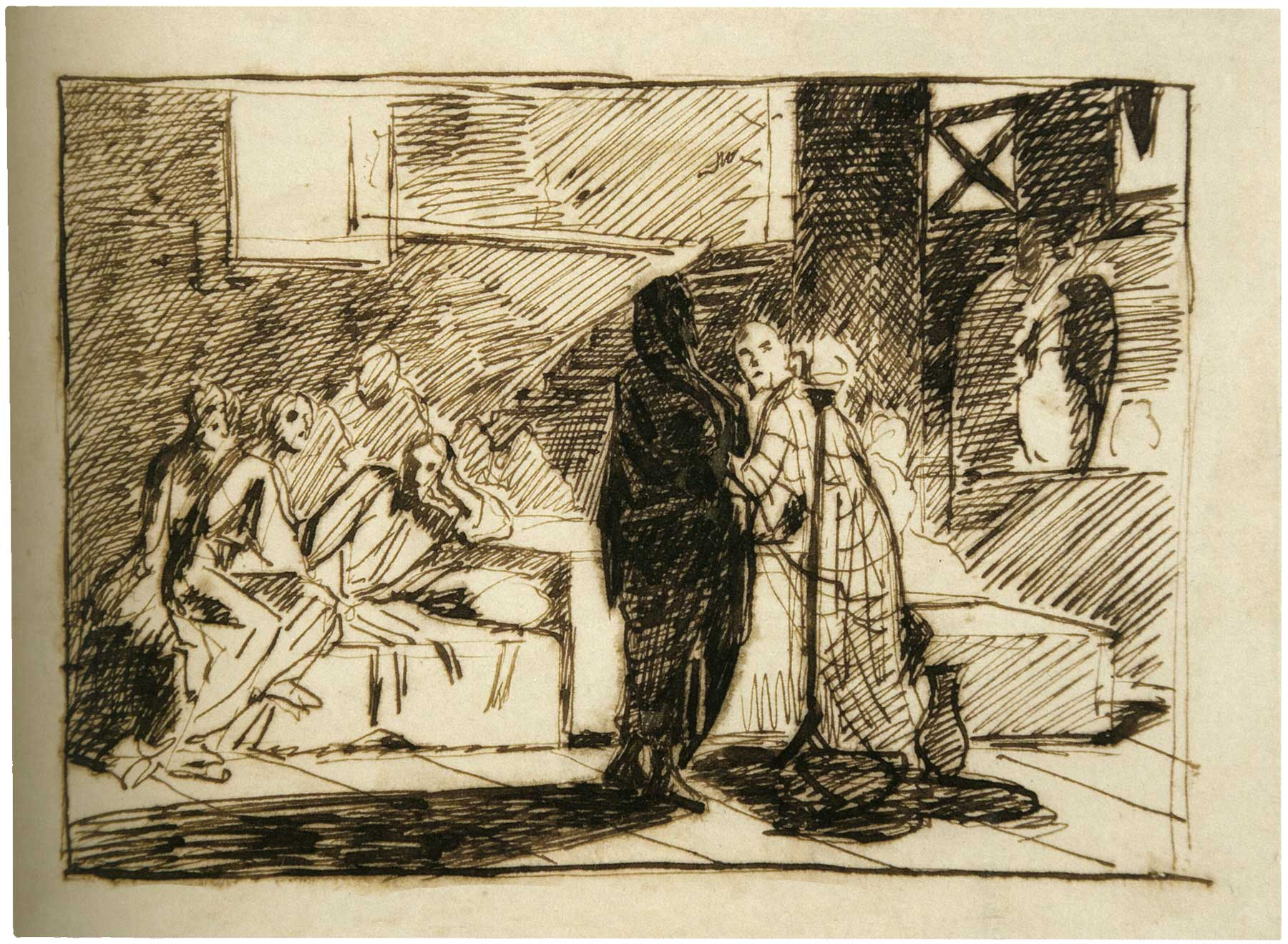 The last supper (study for the 1863 painting, by Nikolai Ge, 1862)